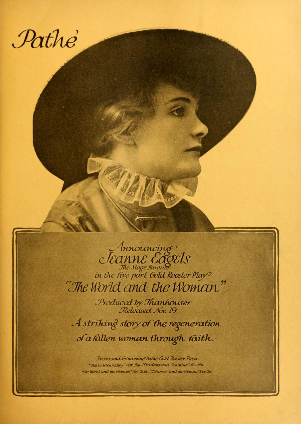 Advertisement in Moving Picture World for the American film The World and the Woman (1916).